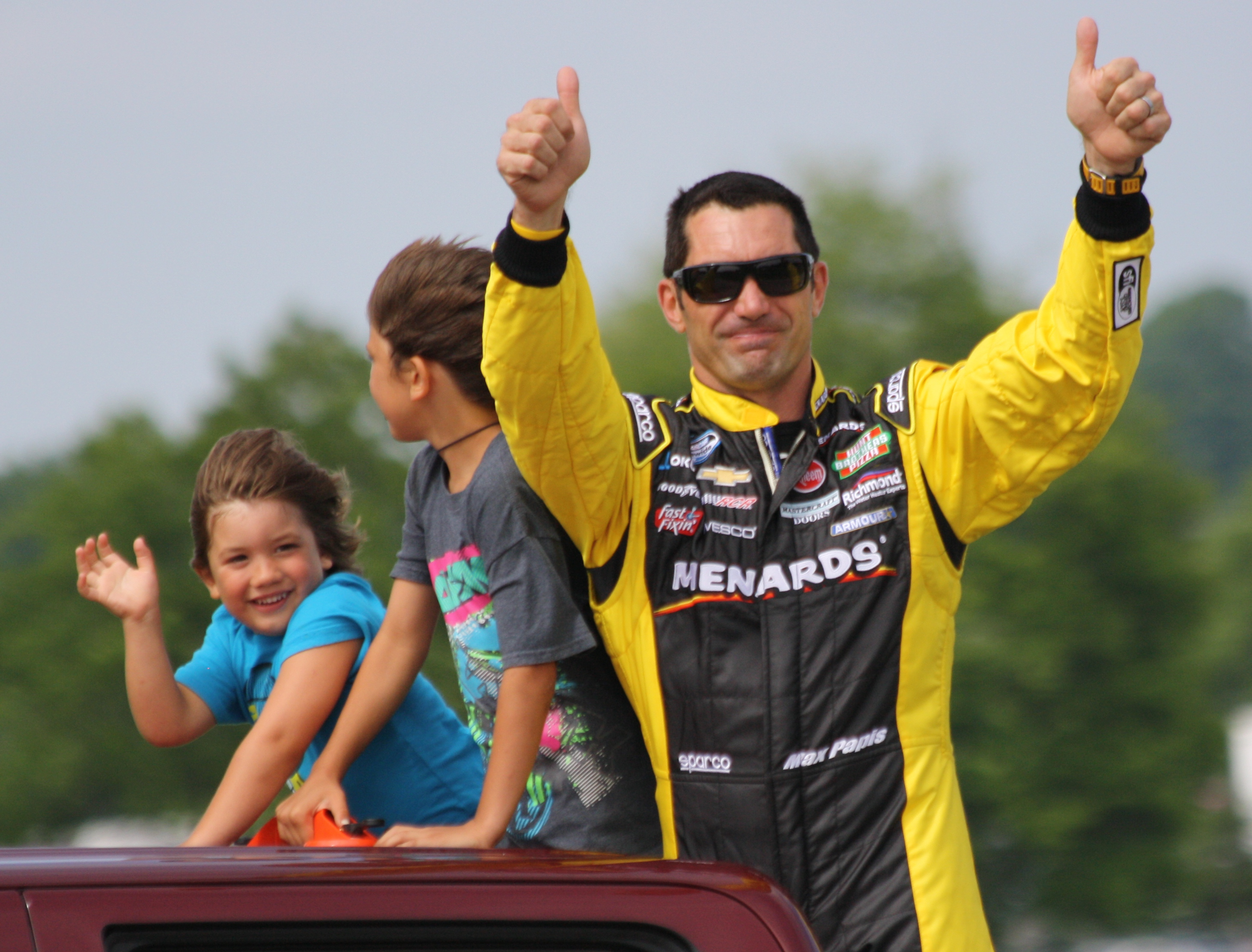 NASCAR driver Max Papis at the 2013 Johnsonville Sausage 200 Nationwide race at Road America.